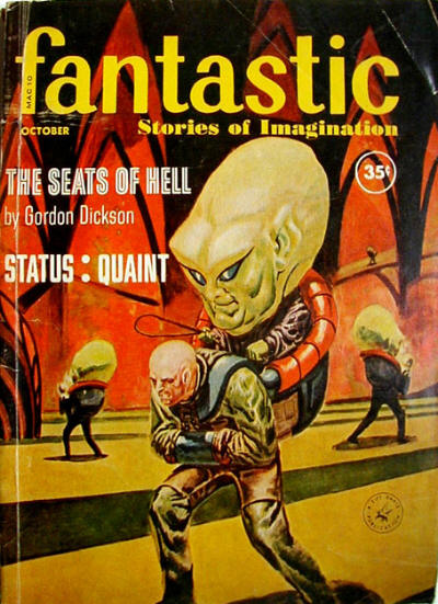 Cover of Fantastic, October 1960